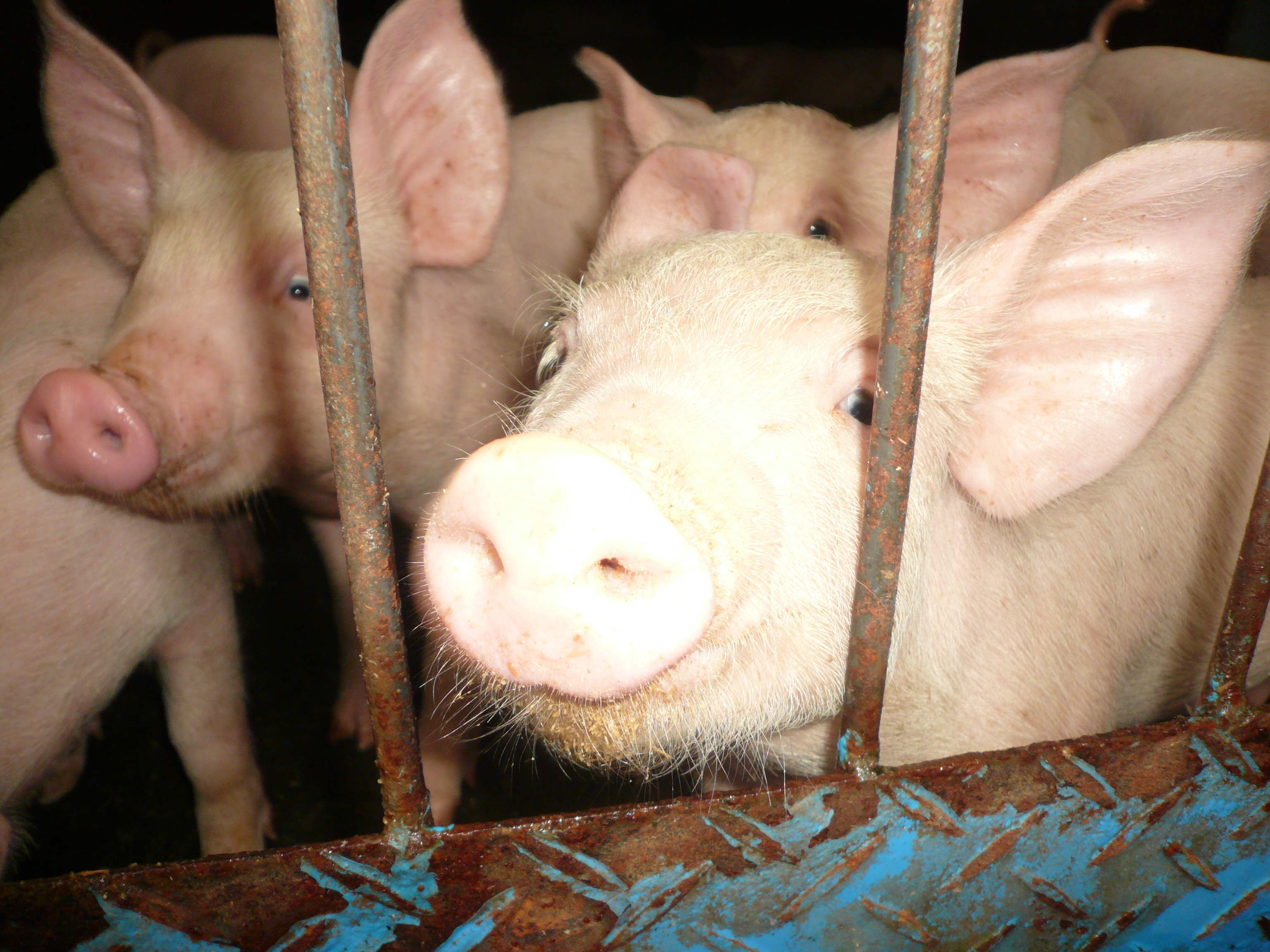 Gifu livestock research center（畜産センター (岐阜市)）,Gifu,Gifu,Japan（岐阜県岐阜市）で撮影。子豚。